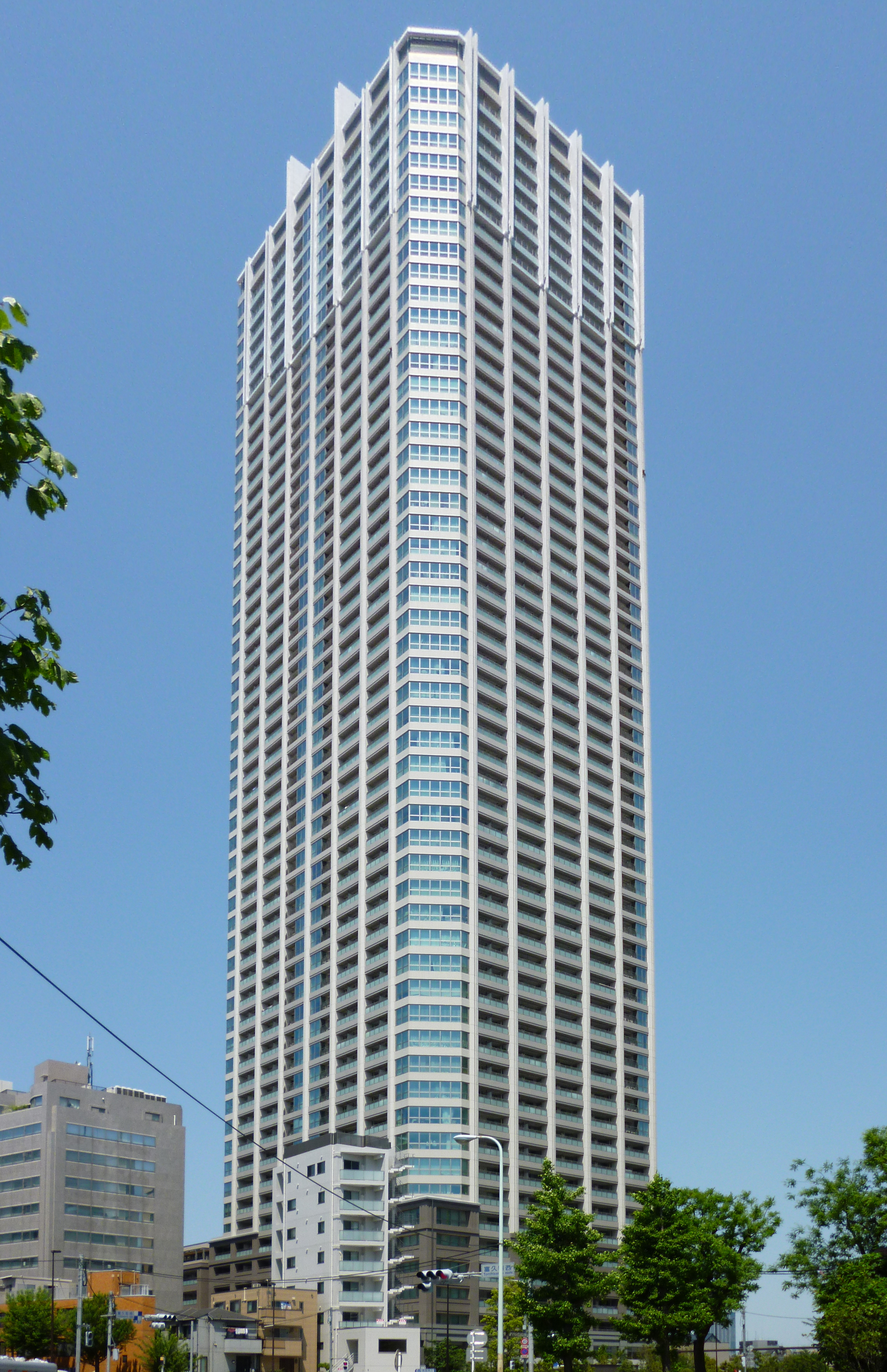 Tomihisa Cross Comfort Tower in Shinjuku, Tokyo, Japan.